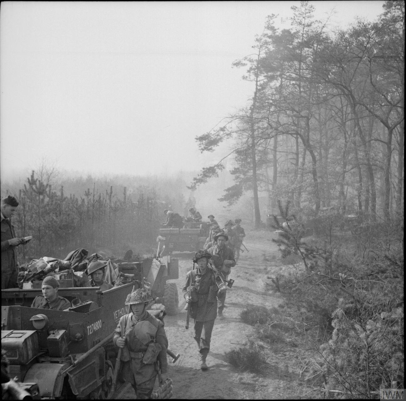 The British Army in North-west Europe 1944-45 Carriers and infantry of 6th King's Own Scottish Borderers move forward after crossing the Rhine, 25 March 1945.